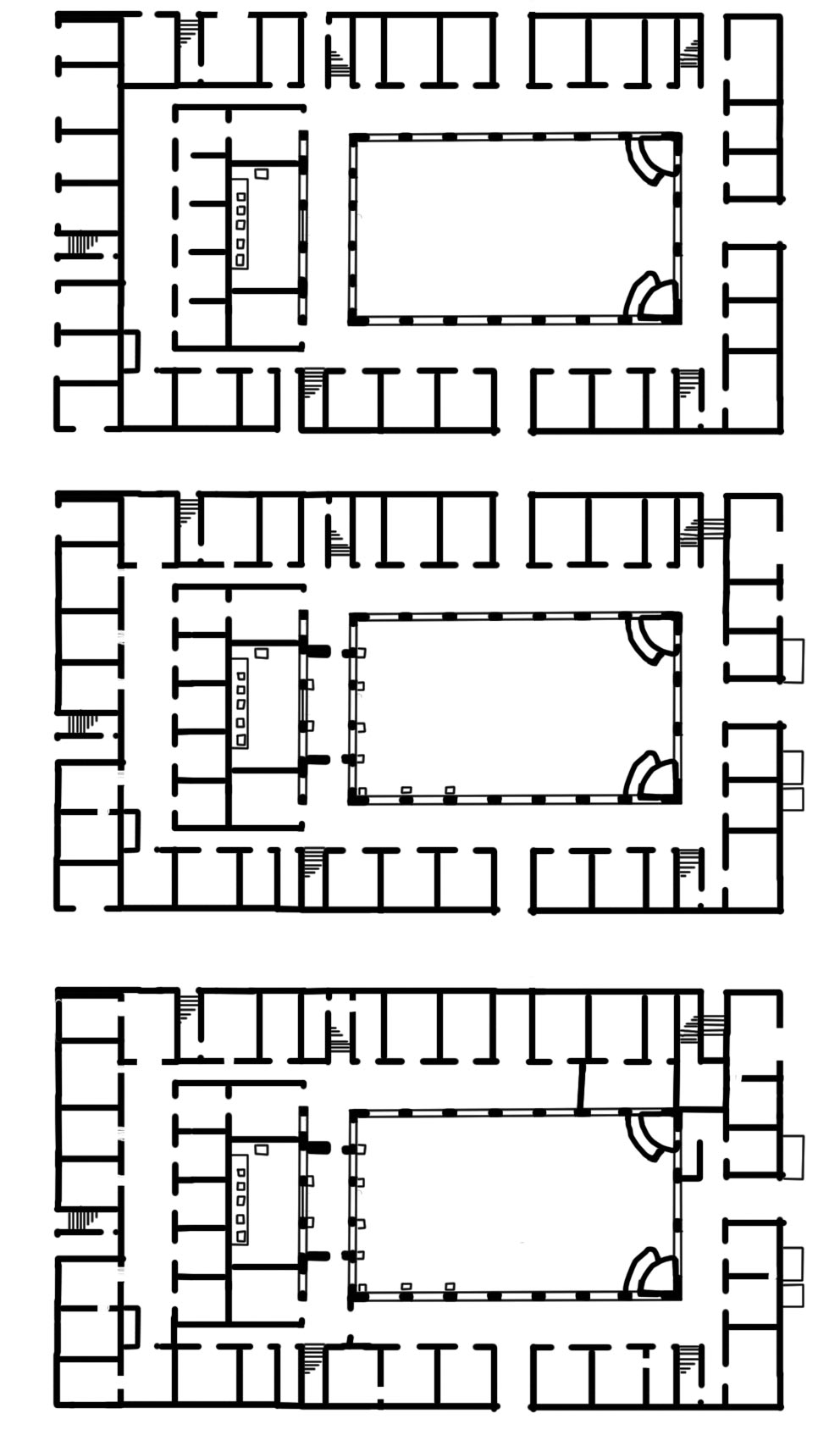 Schematic plan of the Caserma dei Vigili in Ostia antica (II,V,1-2) (from top to botton: Hadrianic epoc; Severian epoc; later)